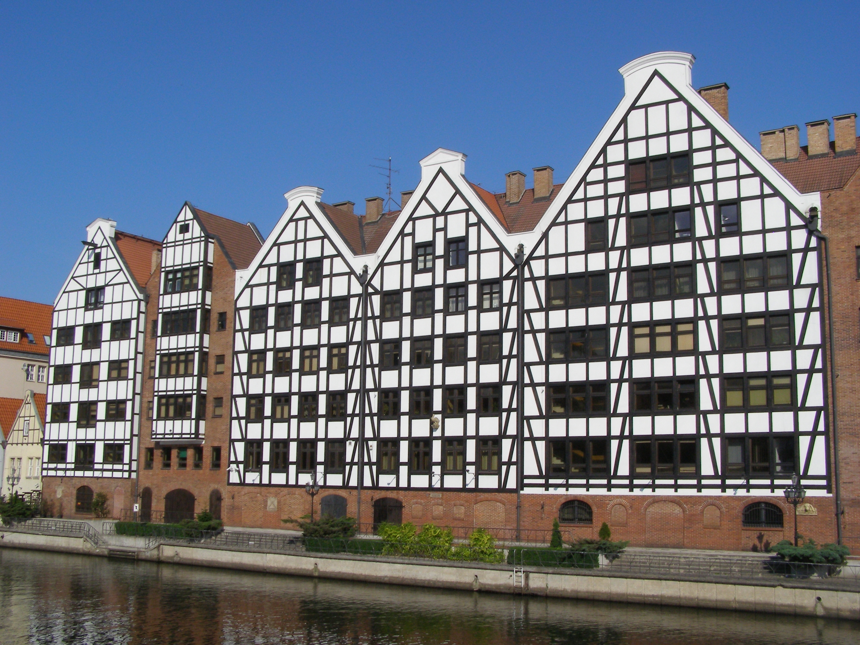 Gdańsk - Granary Island, 27-33 Chmielna str.